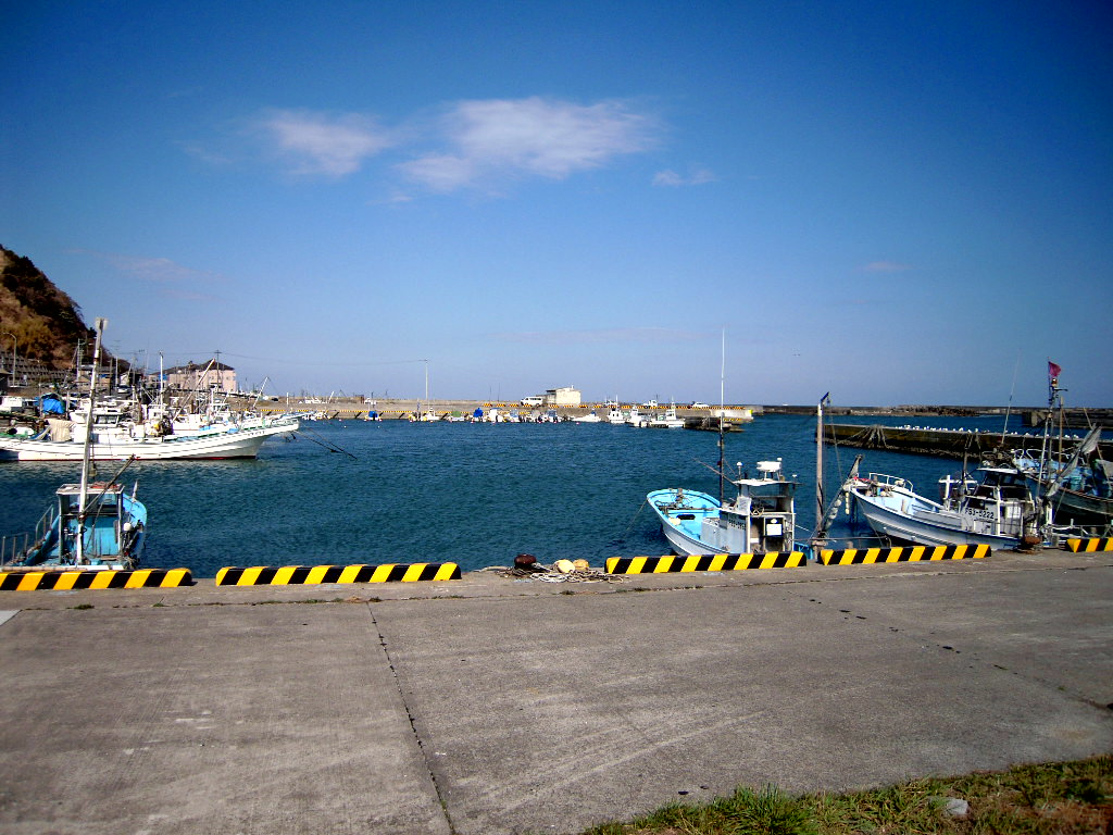 Port of Yotsukura in Iwaki City, Fukushima Prefecture, Japan